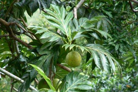 Leaves and fruit of the Artocarpus altilis